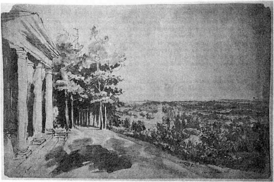 View from the Temple of Bacchus, Gothic Temple in middle distance, an architectural folly in Painshill Park, Cobham, Surrey. Sketch by Elias Martin, c. 1770